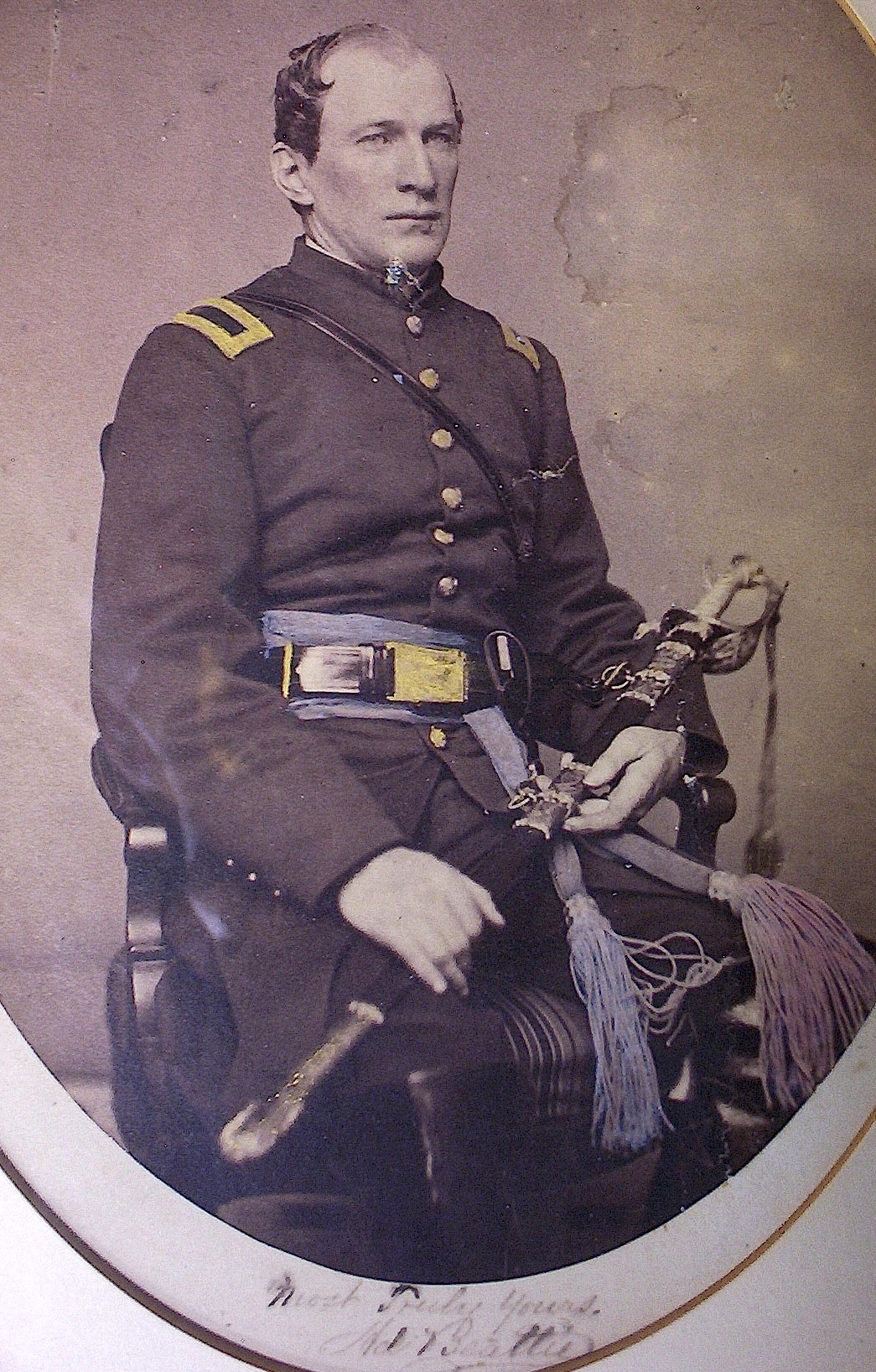 I made this myself from my own family photo of Adam Beattie and is the only one in existence.